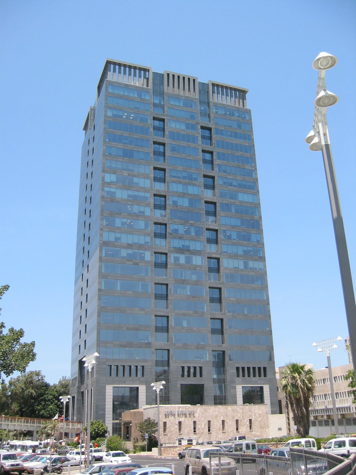 Bercovich tower (The museum tower), Tel Aviv